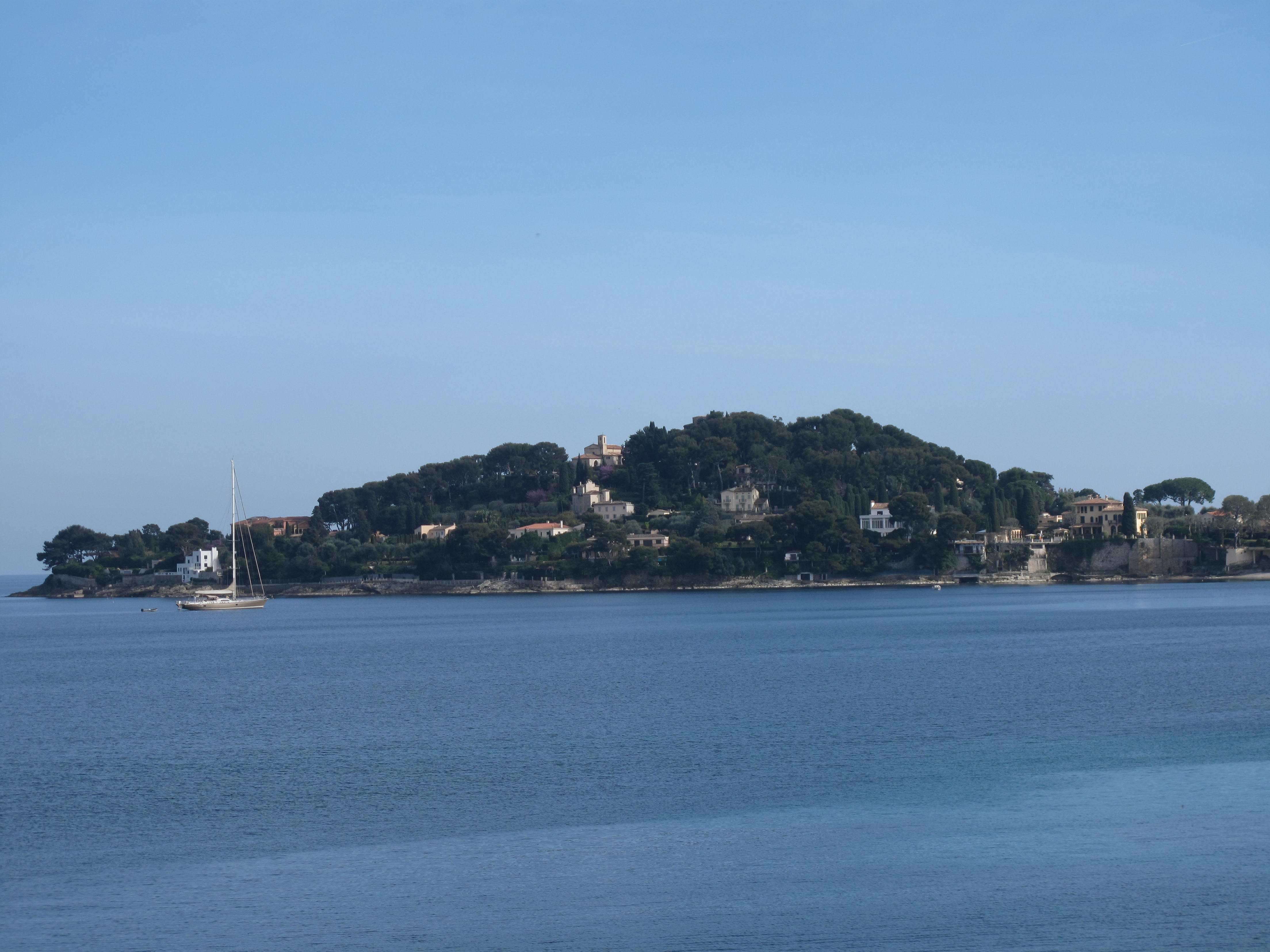 The cape of Saint-Hospice with the chapel at the top in Saint-Jean Cap-Ferrat, Alpes-Maritimes, France